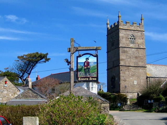 The pine, the pub sign and the church - Zennor, near to Zennor, Cornwall, Great Britain. Zennor was once a centre for fishing, quarrying, farming and tin mining but now only agriculture has survived. The pub is noted for its past famous resident, the novelist D H Lawrence and his German wife Frieda who lodged there in 1916 before renting a cottage nearby. Lawrence wrote "Women in Love" during the eighteen months of their stay before being ousted for their bohemian lifestyle and there was some thought in the community that they were spies. The carving of the Mermaid of Zennor and the memorial stone of John Davey, the last traditional speaker of the Cornish language, are at the Church of St Senara.